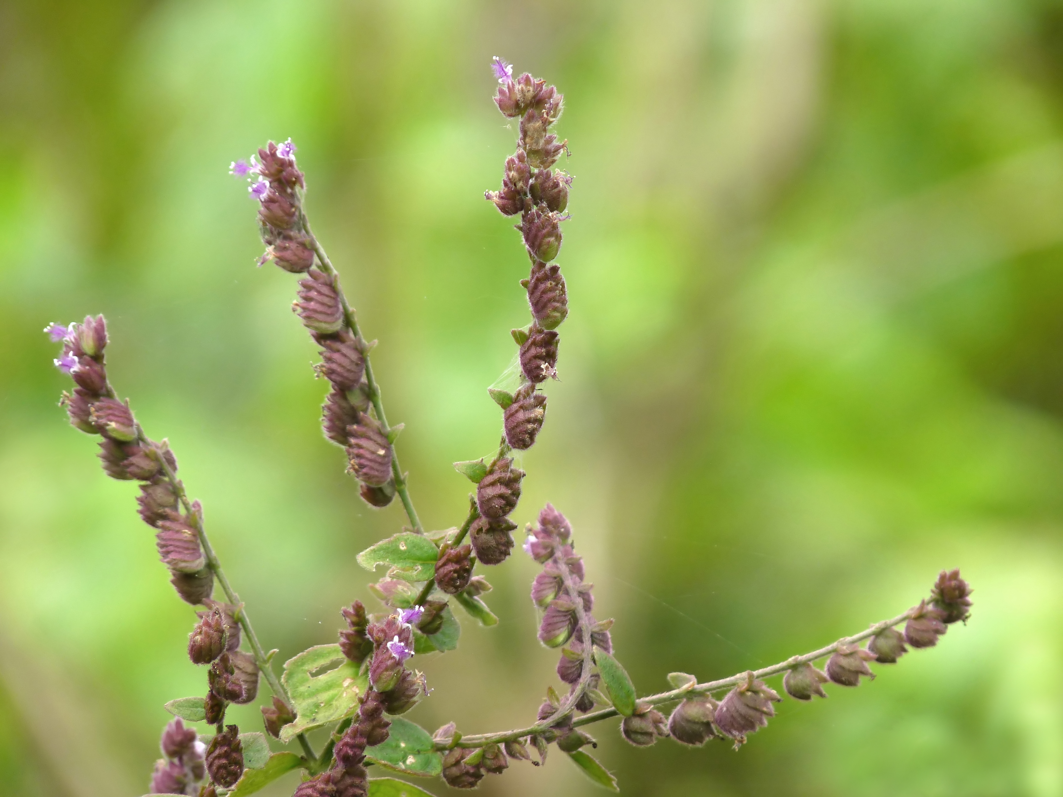 Pogostemon purpurascens, Sangbrei, is an erect or suberect branched herbs belongs to Lamiaceae family. Leaves 7 x 5 cm, ovate, oblique at base, acute at apex, irregularly dentate, nerves 4 pairs; petiole 1 cm long. Spikes 10-20-flowered, clustered, racemose or panicled; bracteoles 6 x 4 mm, ovate-falcate, regularly imbricating, hairy. Flowers densely packed; calyx 5 mm long, lobes acute; corolla purple, 6 mm long, hairy, lobes acute, hairy; filaments bearded with purple moniliform hairs. Nutlets trigonous, dark brown, smooth